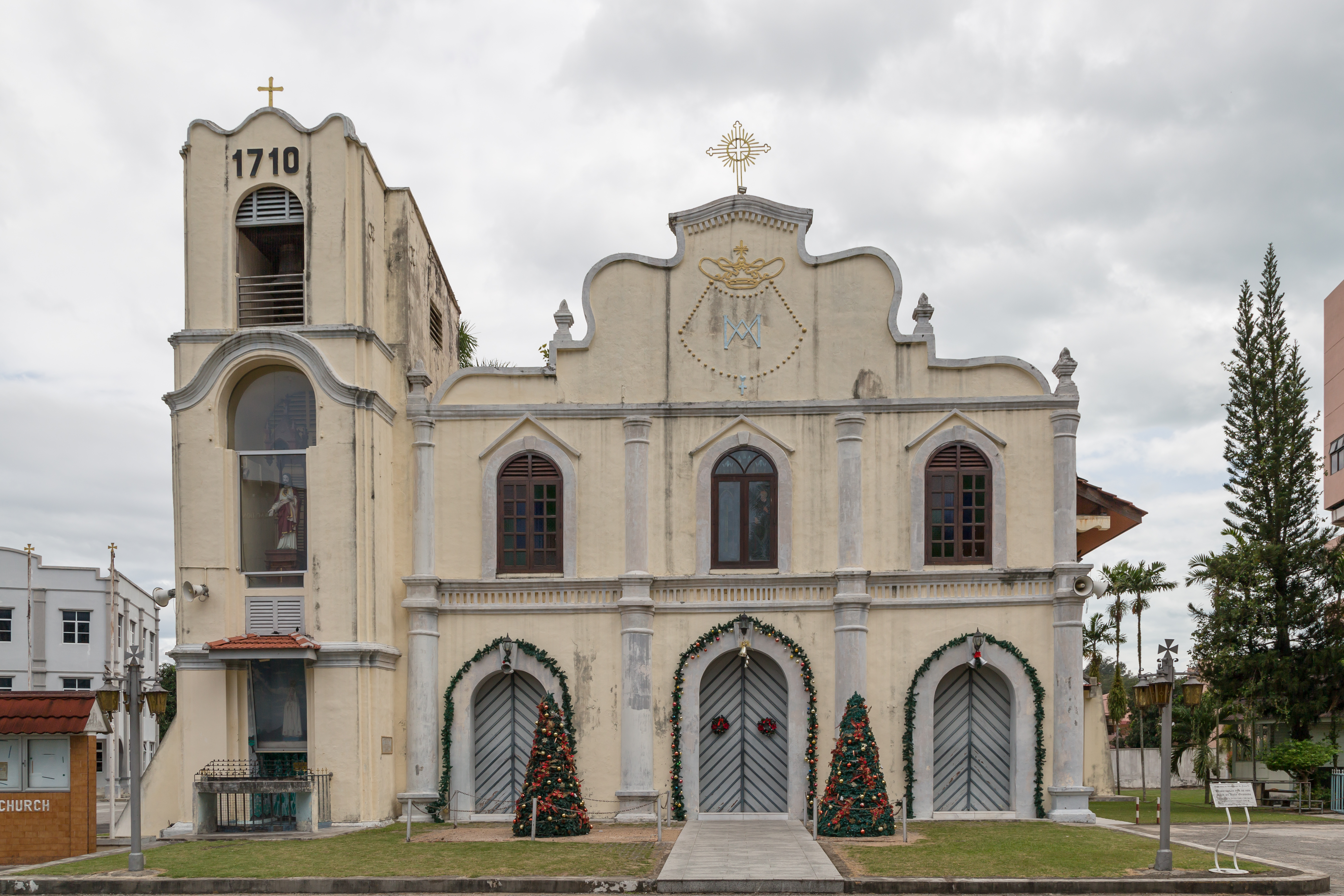 Malacca, Malaysia: St. Peter's Church, Melaka